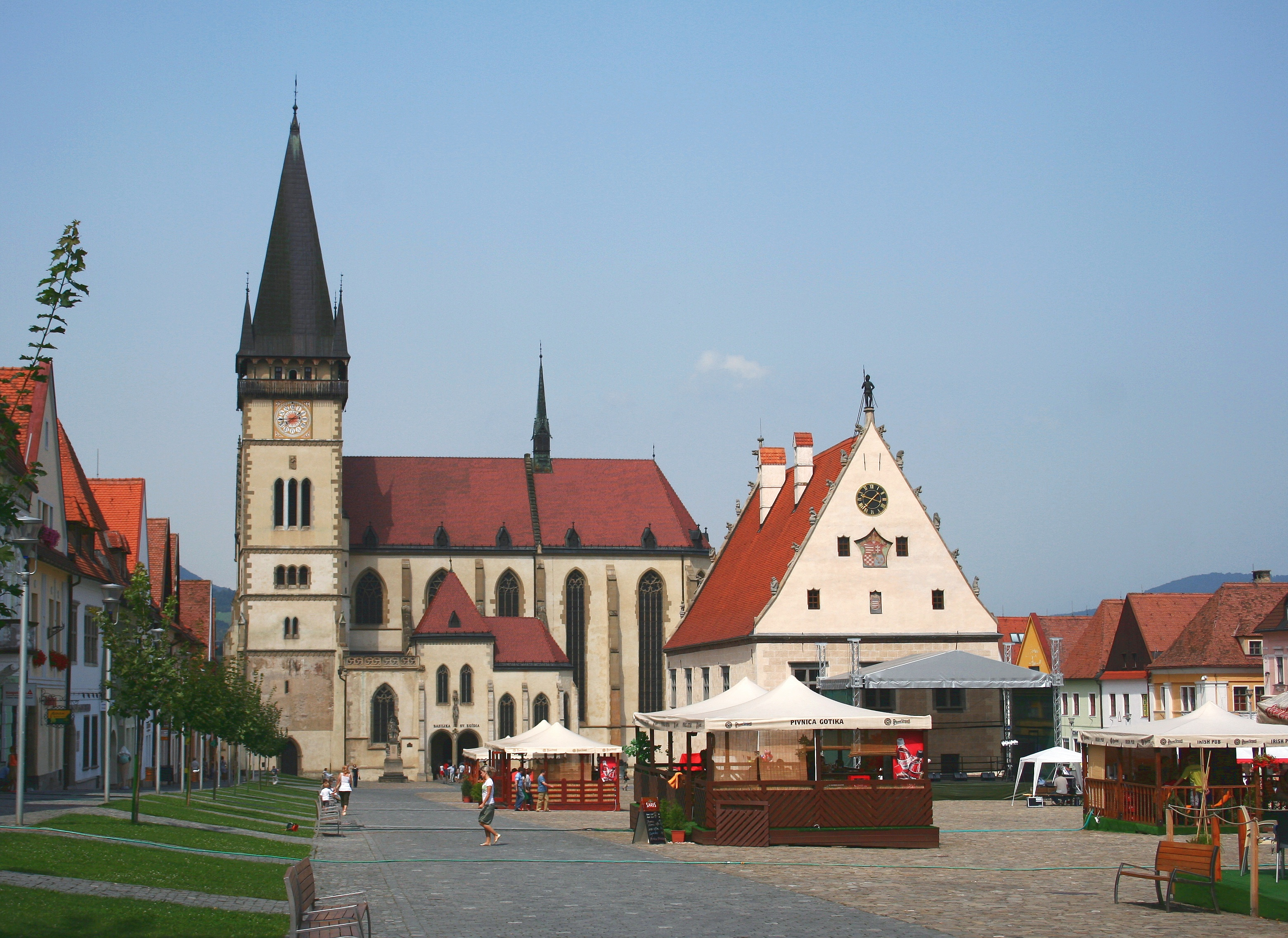 Market square in Bardejov, Slovakia